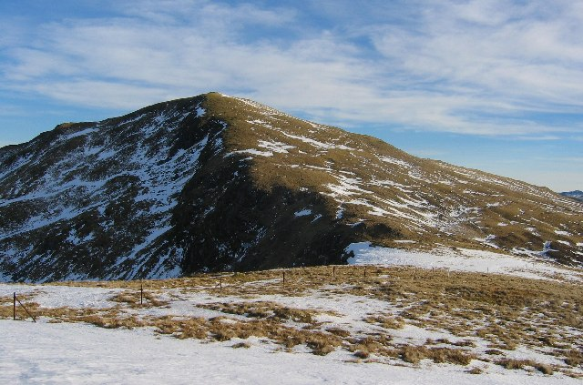 Stuchd an Lochain. Ridge between Meall Odhair and Stuchd an Lochain. Note the old fence posts.